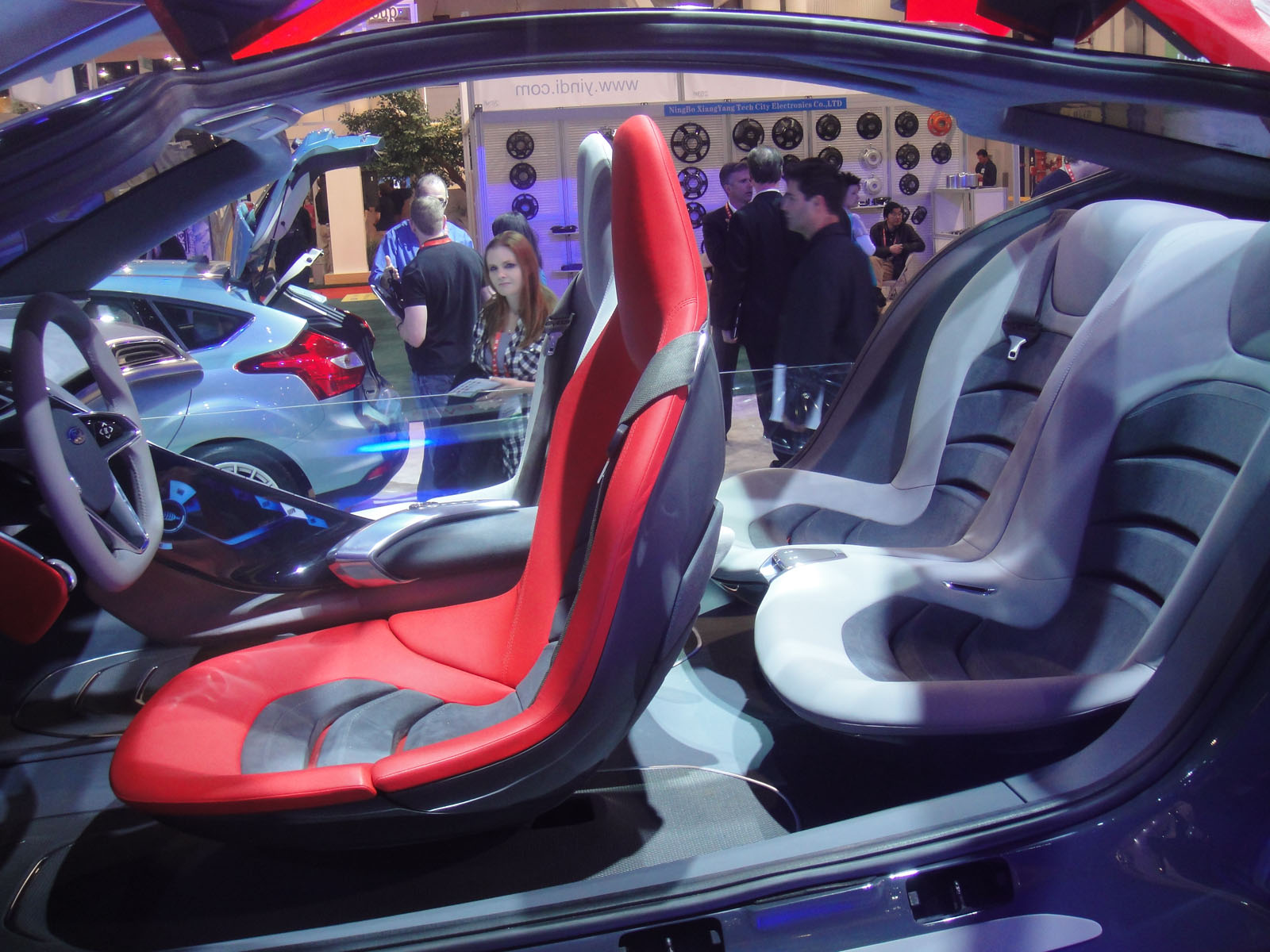 photo 2012 Pop Culture Geek taken by Doug Kline If you're interested in higher resolution versions of my images, contact me via my profile page.